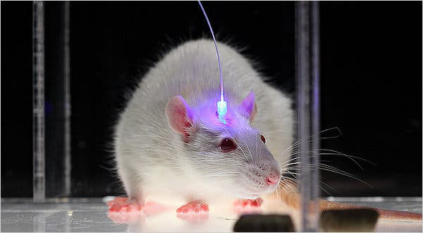 Futuristic method in neuroscience that is relatively new and will be very dominant in the future of the field- because of shortage of images on this topic on wikipedia id like to upload it.